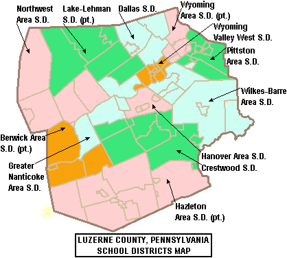 Map of Luzerne County, Pennsylvania, United States Public School Districts (English)